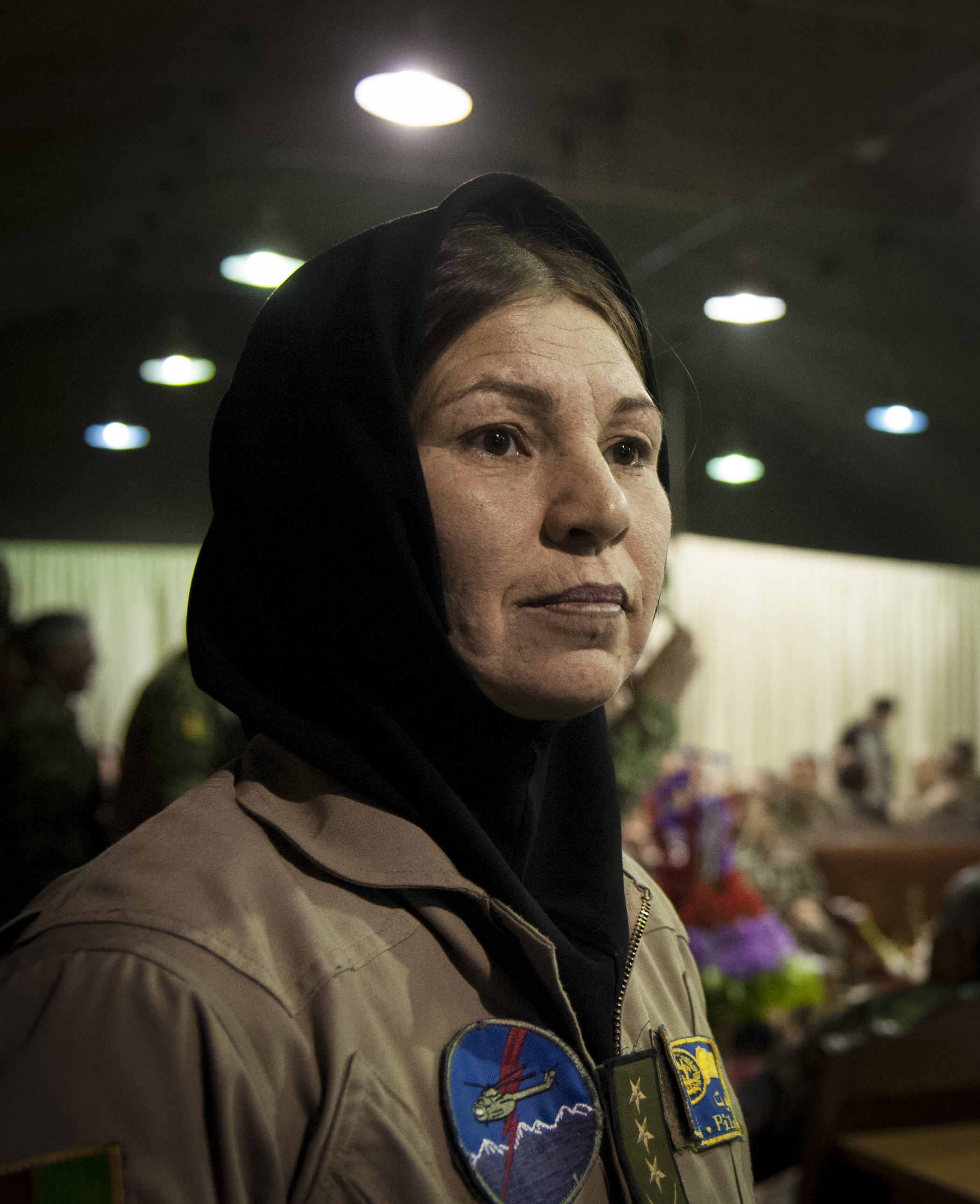 The first female pilot in Afghanistan’s history Col. Latifa Nabizada exits the stage after speaking at an International Women’s Day celebration at Kabul International Airport March 7, 2013. The celebration highlighted the contributions women make towards building a better and stronger Afghan Air Force. (U.S. Air Force Photo By: SSgt Dustin Payne, ISAF HQ Public Affairs)